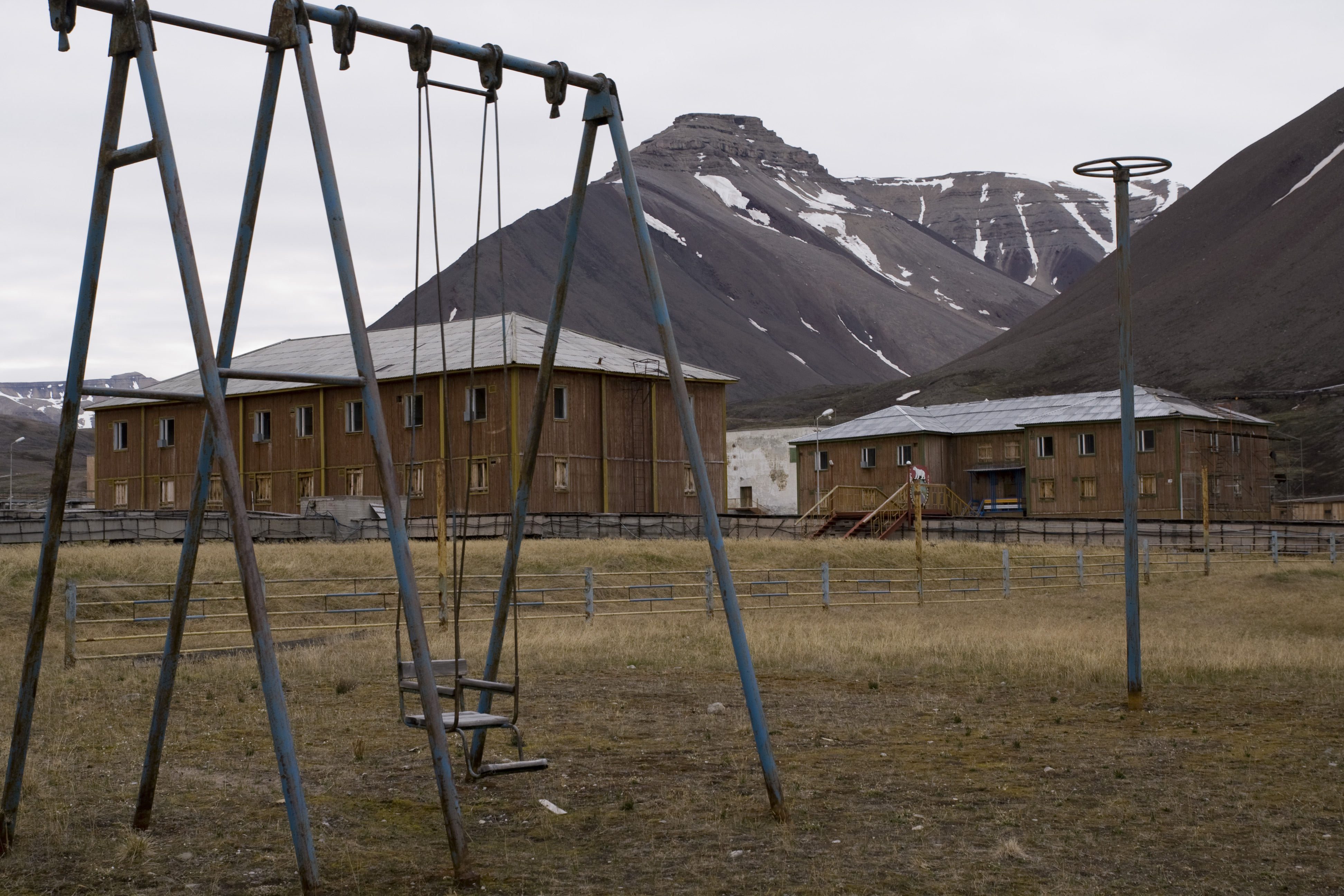 Pyramiden, Svalbard